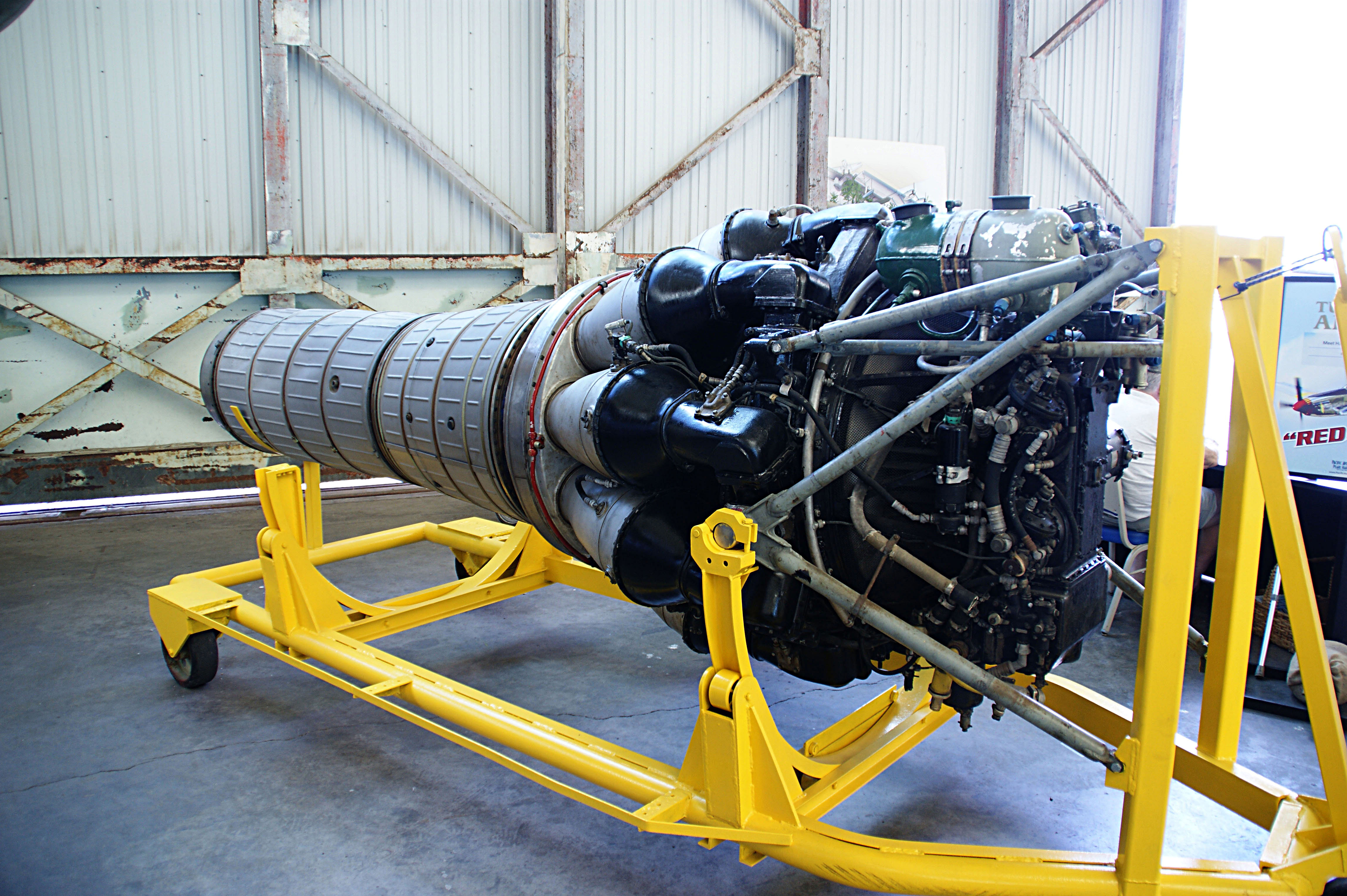 Klimov VK-1 jet engine from LiM-2 (c-n 1B01524 reg# 1524) (LiM-2 is a MiG-15bis built under license in Poland). On display at Pacific Aviation Museum, Pearl Harbor, Hawaii.